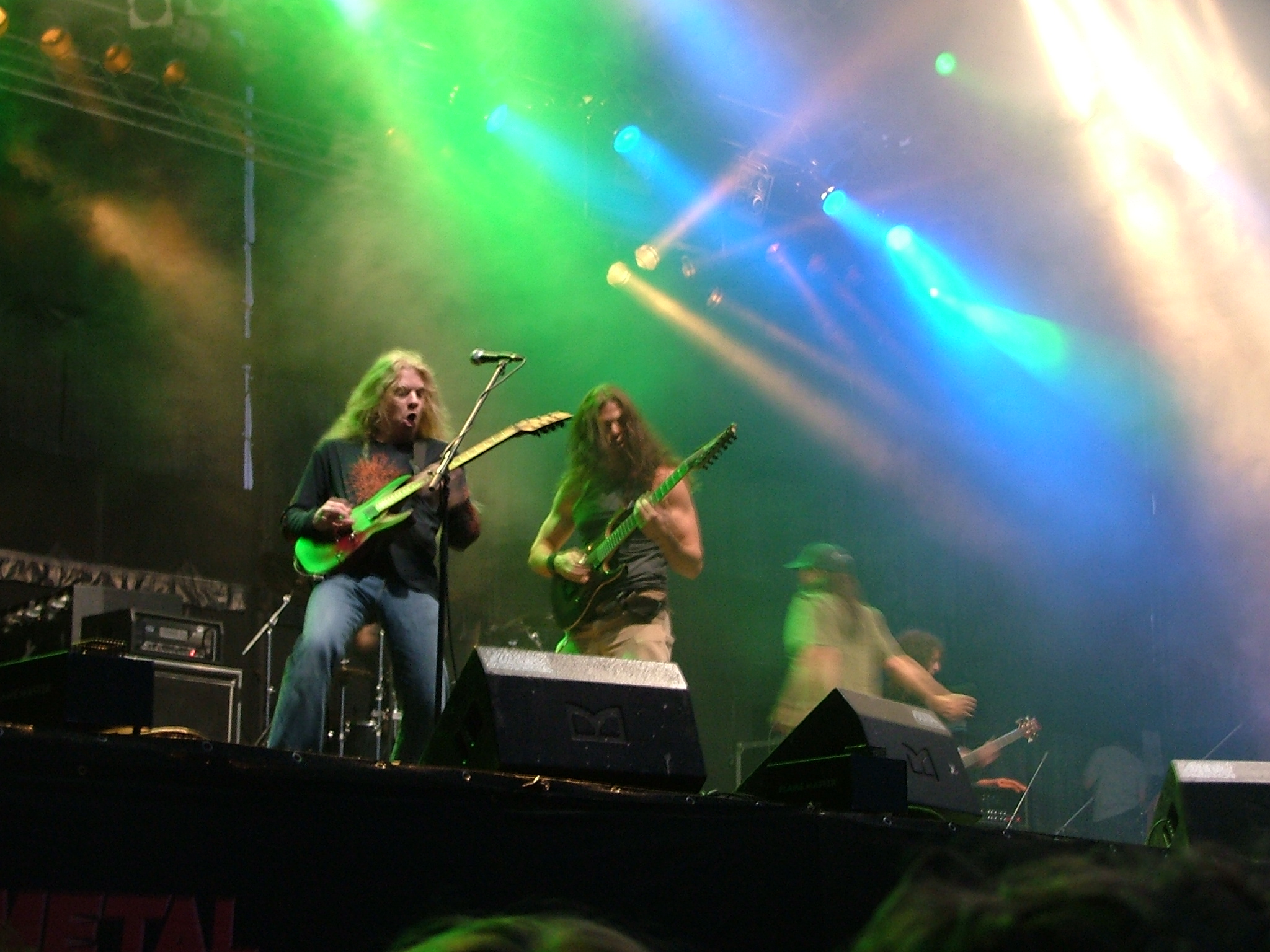 USAmerican progressive metal band Nevermore at the Summer Breeze in Dinkelsbühl